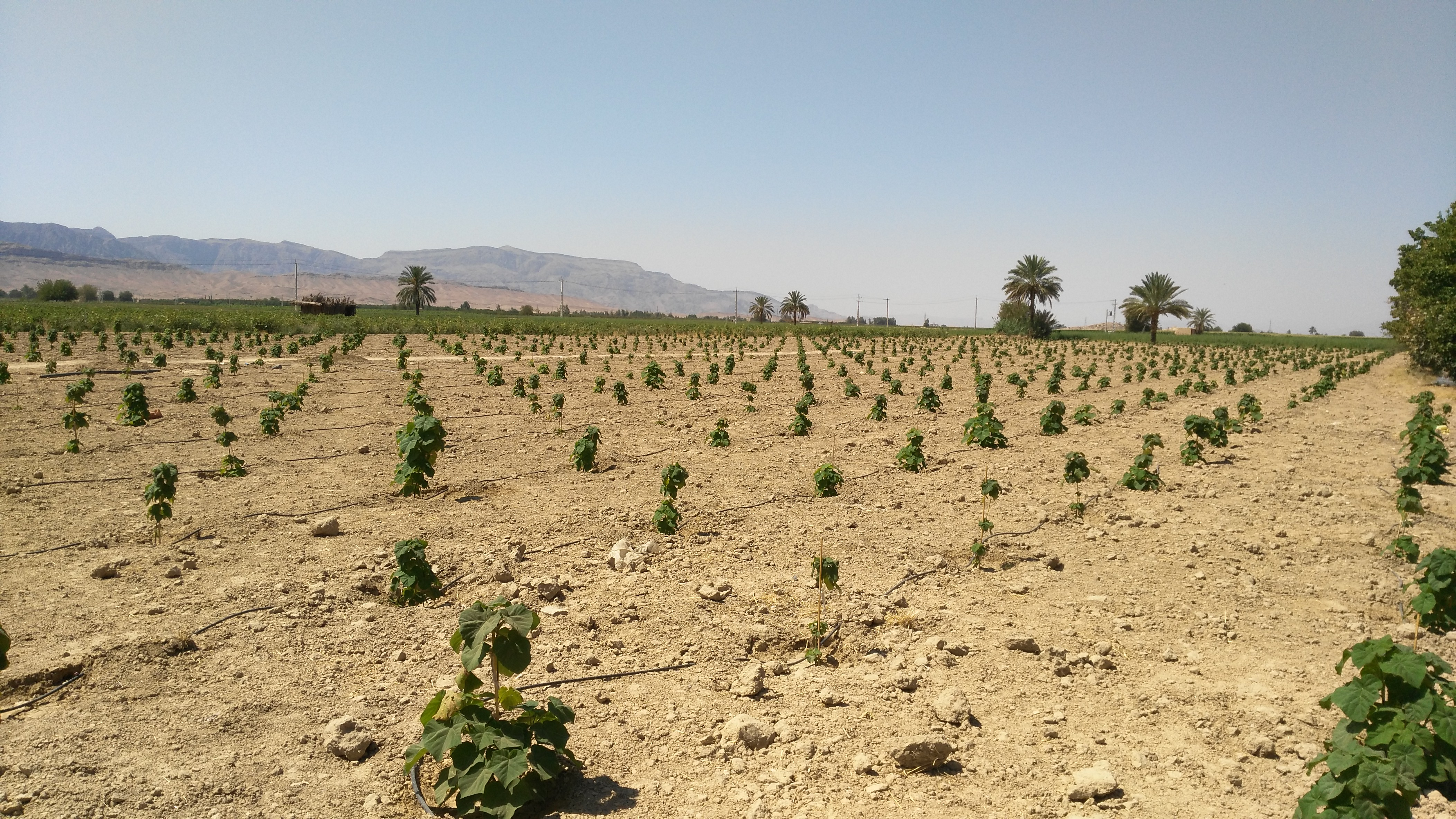 A commercially planted artificial forest in Janat Shahr belonging to Aras Green Economic Dawn / Aras GED managed by Alireza Nasiri.